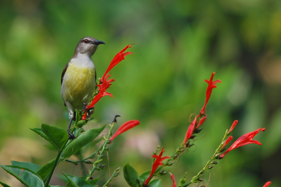 Purple Rumped Sunbird female @ TS